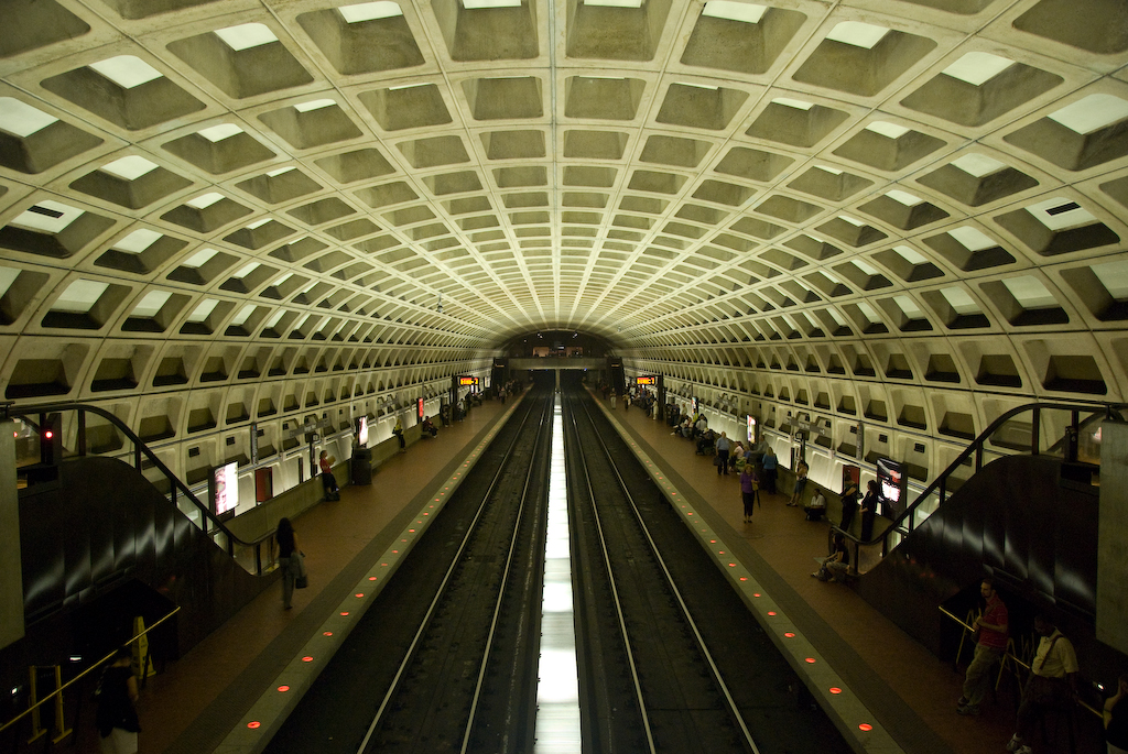 A photo of the Farragut West station.